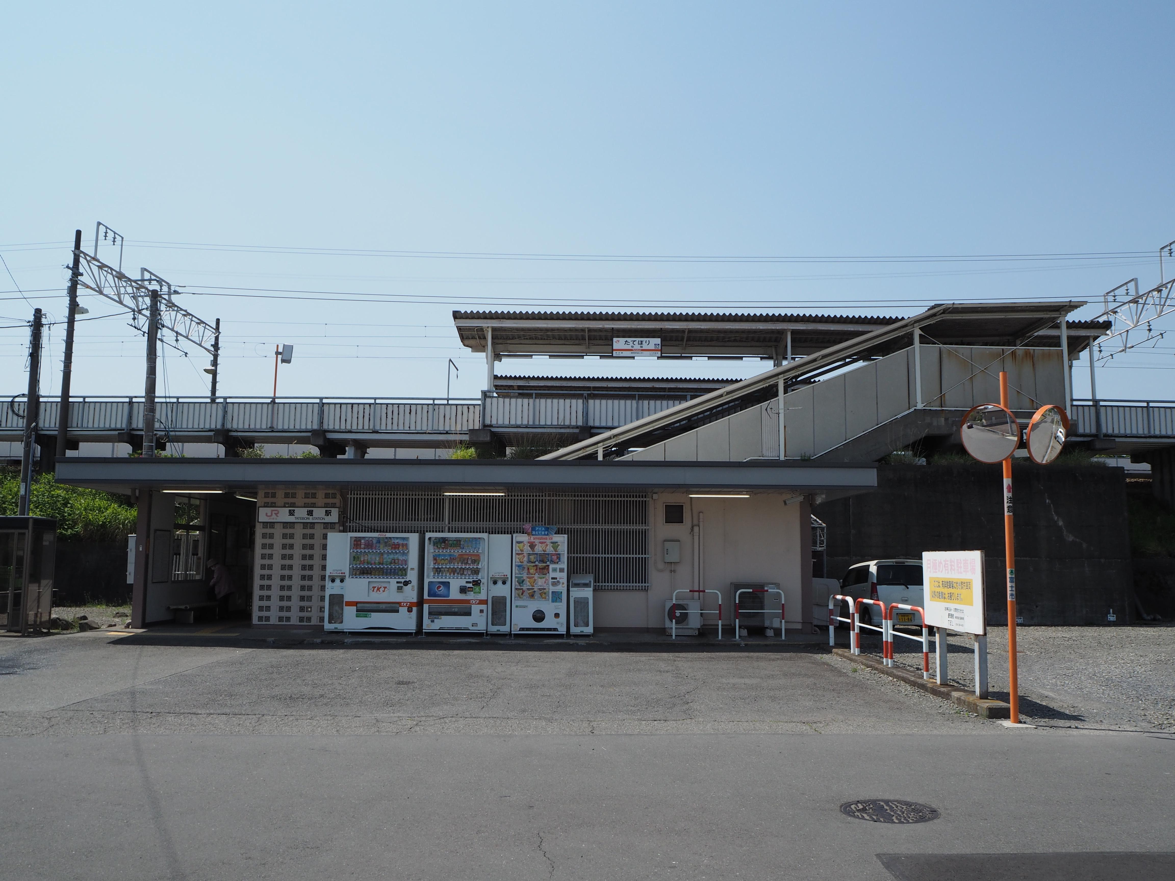 Tatebori Station